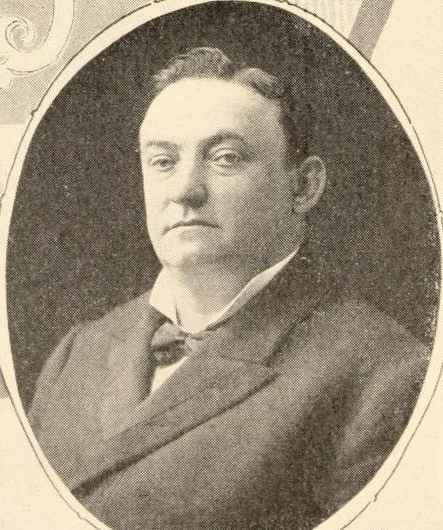 Portrait of New York state senator William D. Barnes